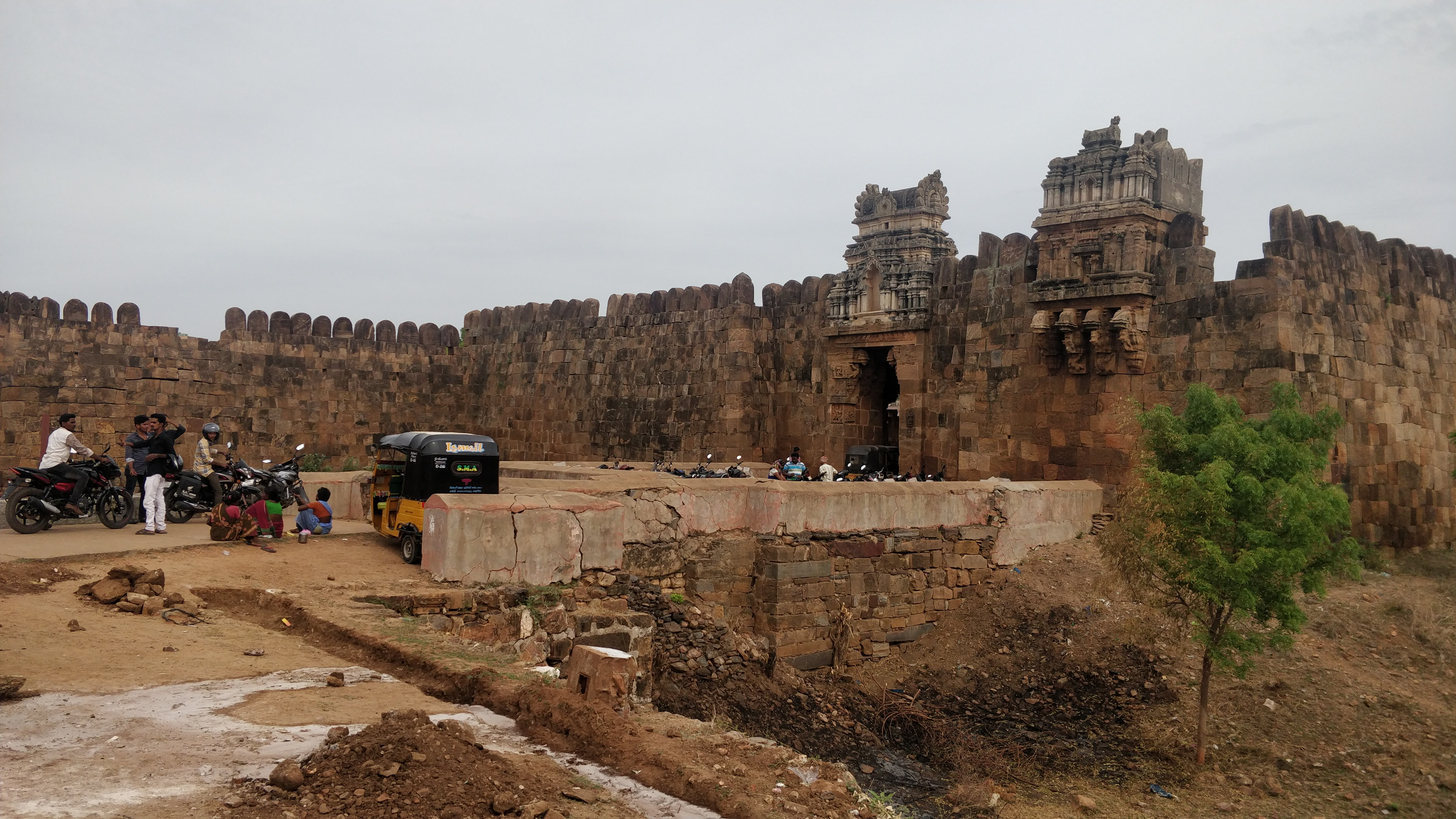 Fort , Moat and buildings